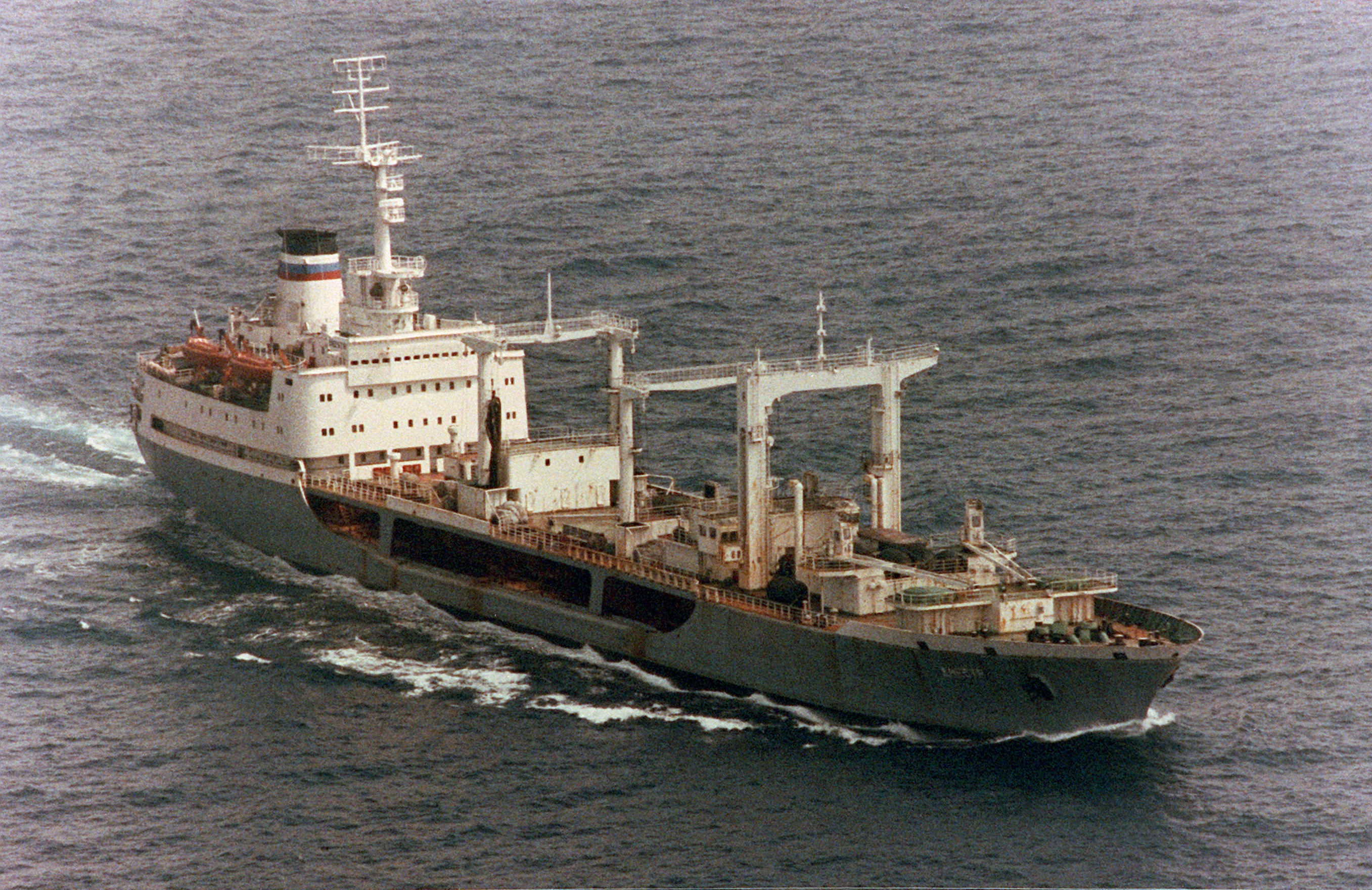 A starboard bow view of the Russian Boris Chilikin-class replenishment oiler DNESTR underway.